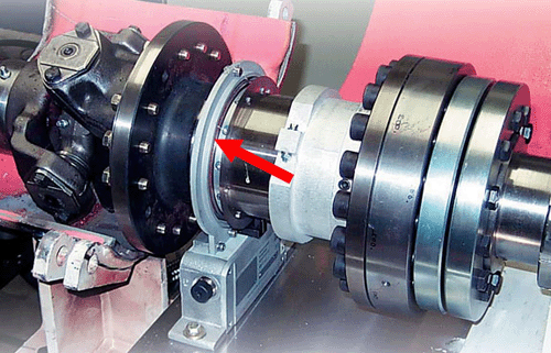 picture of torque transducer with couplings in test bench (transducer is marked by red arrow)